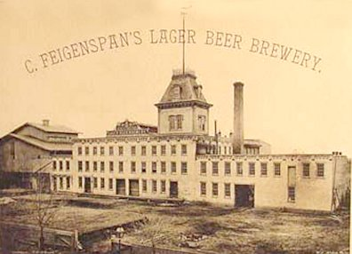 C. Feigenspan Lager Beer Brewery, Newark, New Jersey